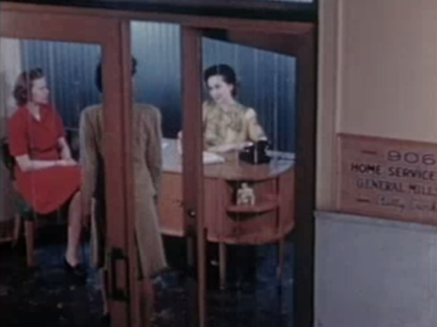 General Mills Home Service Department, screen shot from the film 400 Years in 4 Minutes, Prelinger Archives